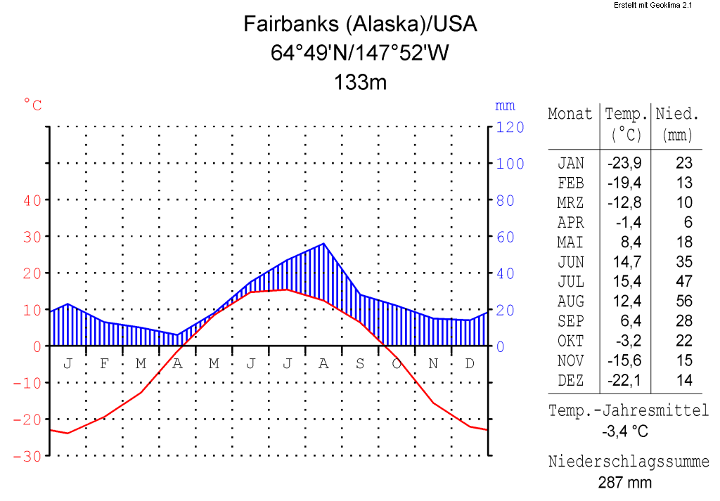 climate chart in the format by Walther and Lieth, metric, °Celsisus and millimeters, made with Geoklima 2.1